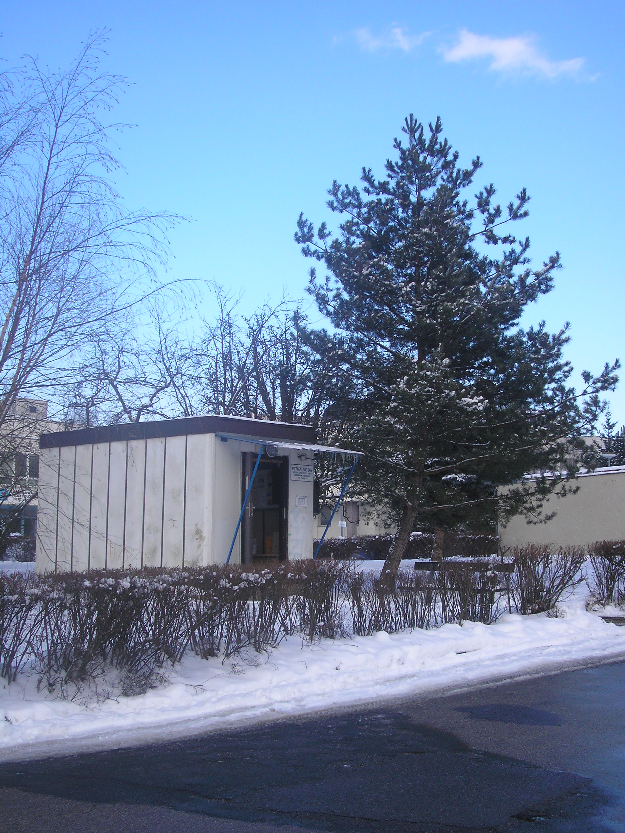 Shop with Heraltice water in Třebíč Borovina